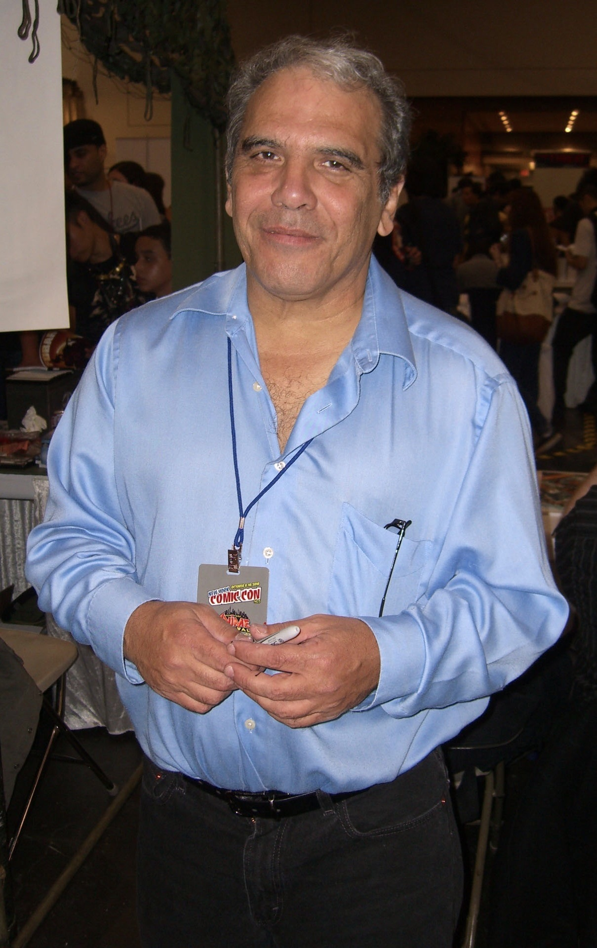 Comic book creator Jim Valentino at the New York Comic Convention in Manhattan, October 9, 2010. Photo by Luigi Novi. This photo may be used, modified and published for any purpose, only if a easily visible credit to the photographer is placed near the photo in each instance in which it is used. (See licensing information below.) Publication of this photo without this proper attribution constitute copyright infringement. For more information on my photos, you can contact me here.